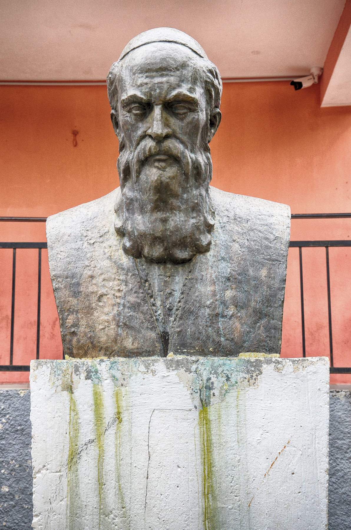 Burrel, Albania, the bust of Pjetër Budi